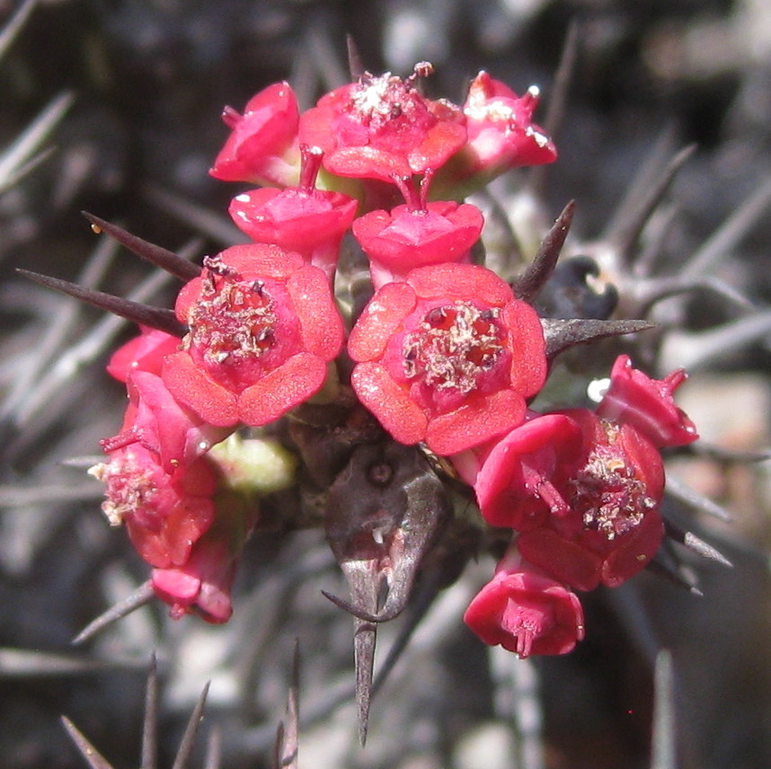 Euphorbia corniculata growing wild on Mount Yokola in Mozambique.